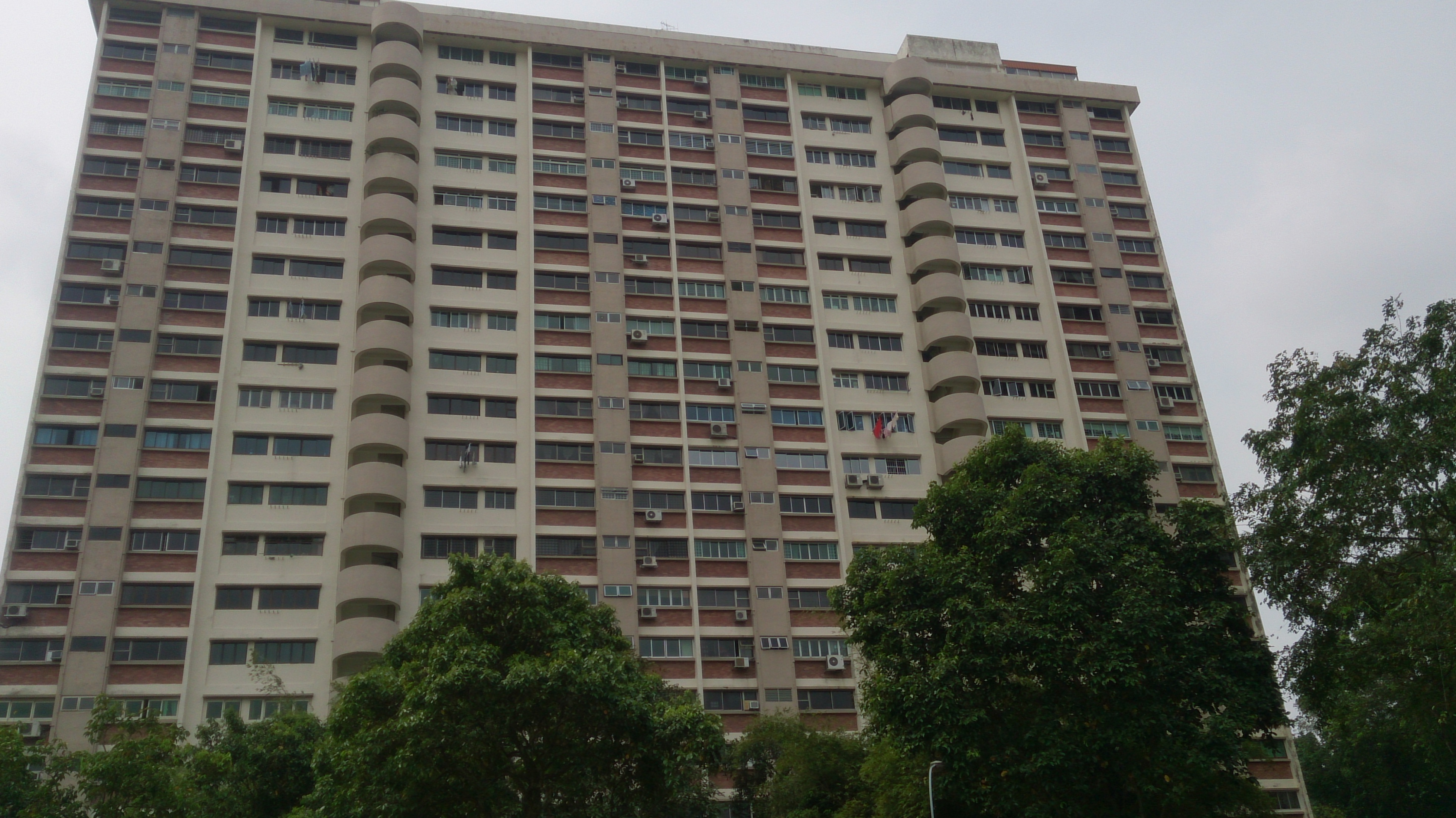 Lakeview Estate flats in the Thomson area of Singapore. Previously Housing and Urban Development Company (HUDC) flats, they have now been privatised.